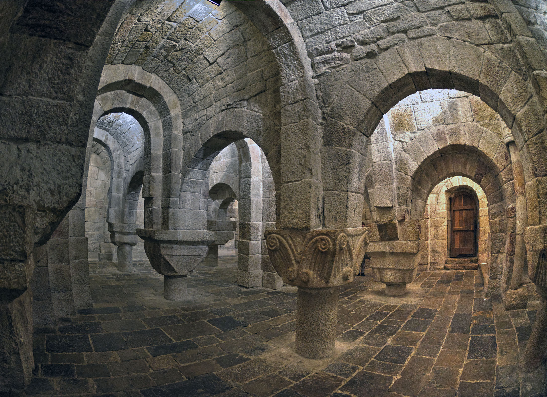 Crypt, Monastery of Leyre